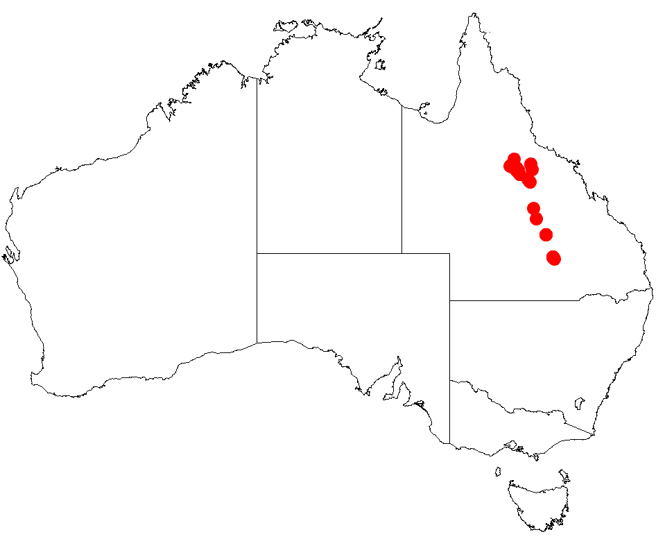 Homoranthus thomasii Occurrence data from AVH downloaded 28 September 2018